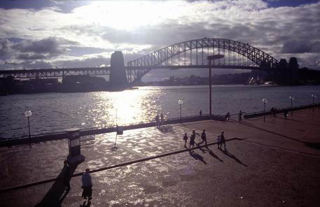 Sidney Harbour Bridge, view from Opera House promenade